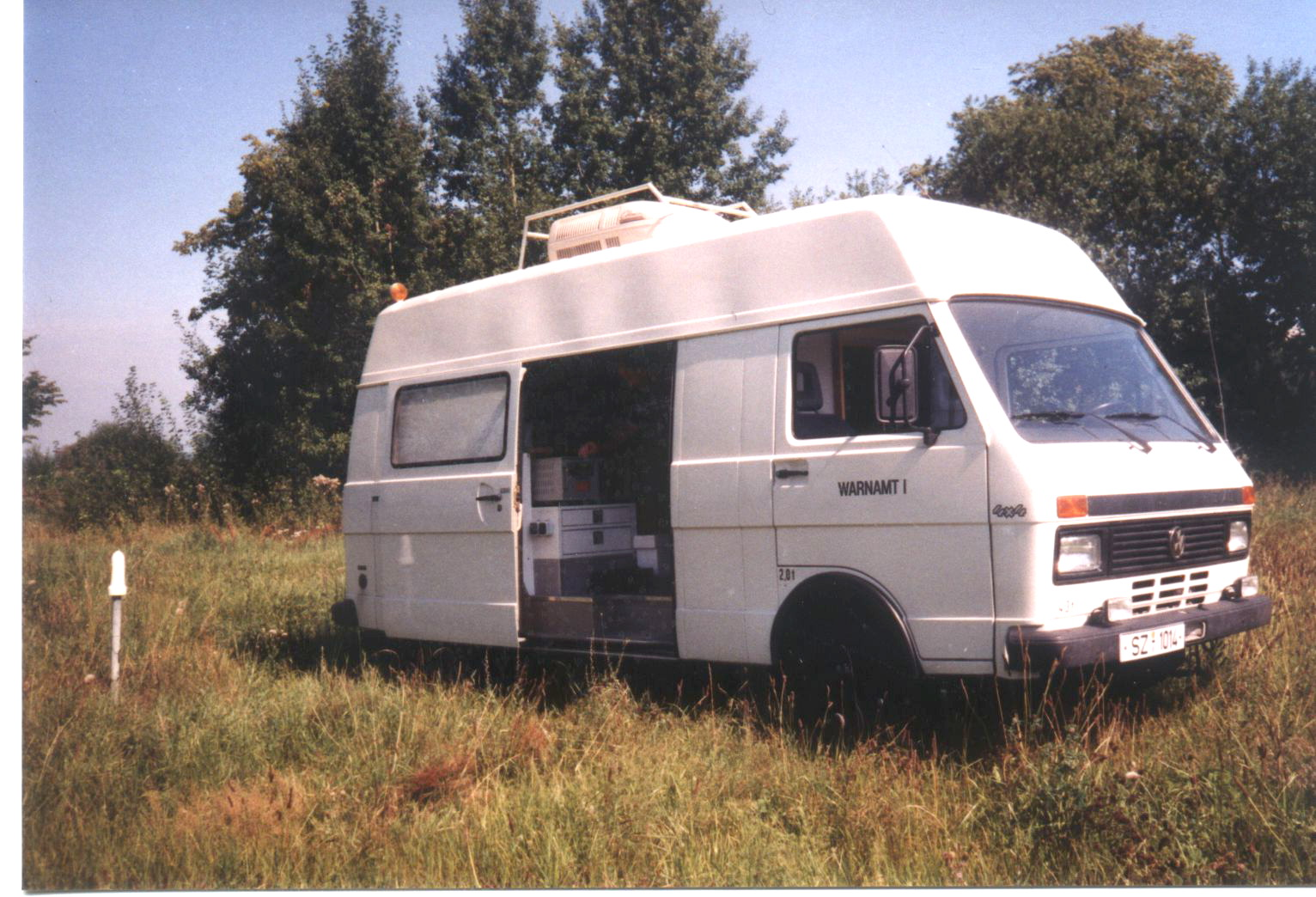 VW LT 40 4x4 mobile measurement laboratory from the Warnamt I and a Geiger-Müller probe of the former Bundesamt für Zivilschutz